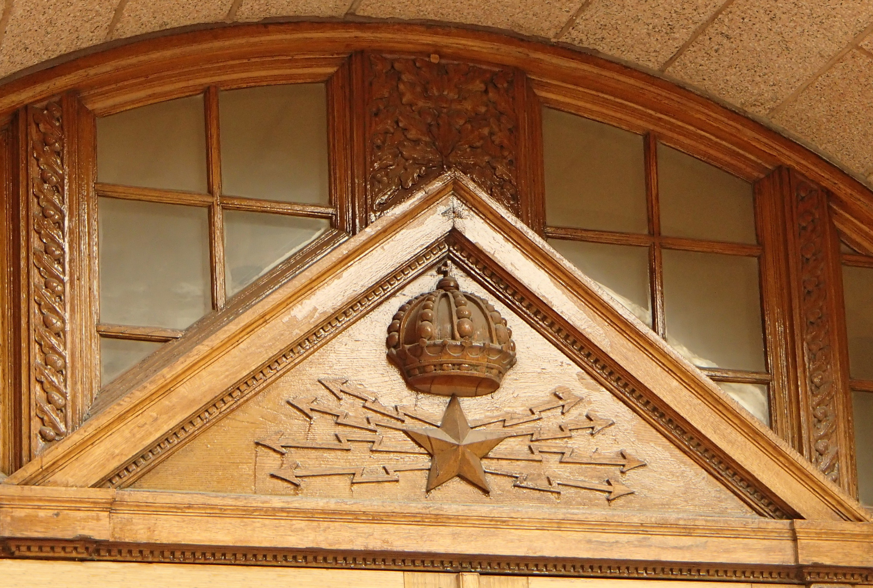 The building of "Telehuset" or "Televerkets hus" in Östersund, Östersund Municipality